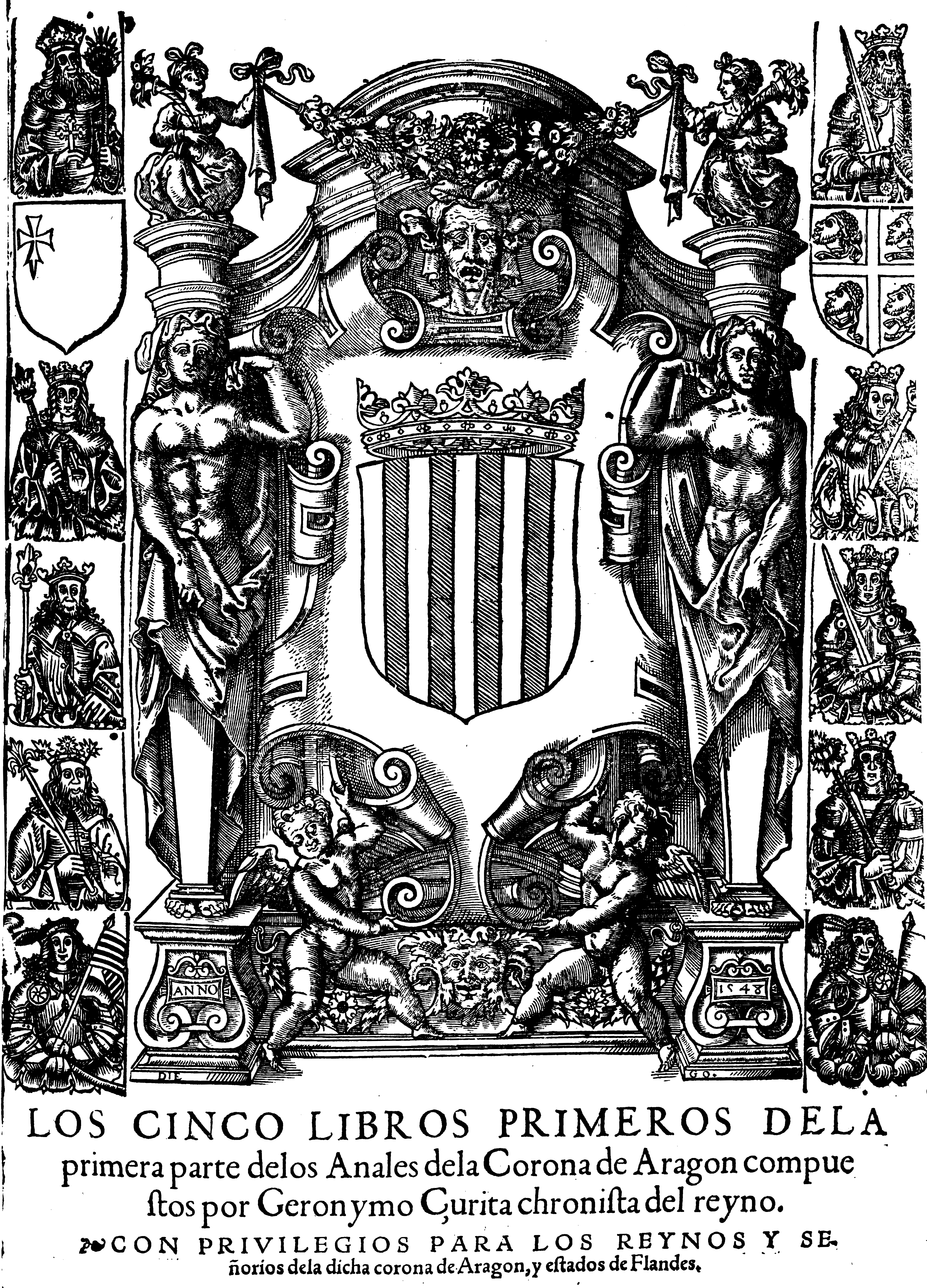 Jerónimo Zurita, Los cinco libros primeros de la primera parte de los Anales de la Corona de Aragon..., Zaragoza, Pedro Bernuz (antigua imprenta de Jorge Coci), 1562